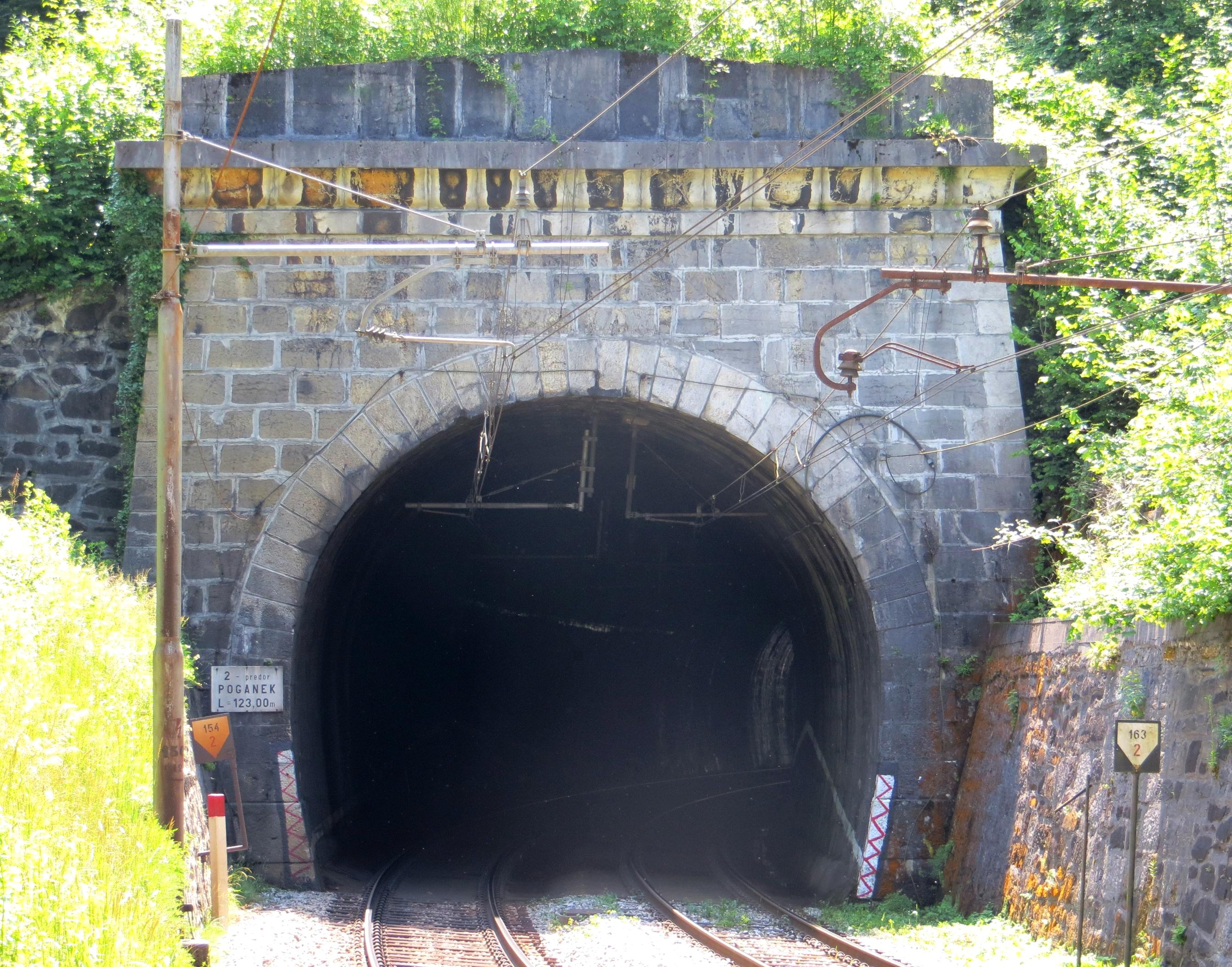 Railroad tunnel at Pogonik, Municipality of Litija, Slovenia